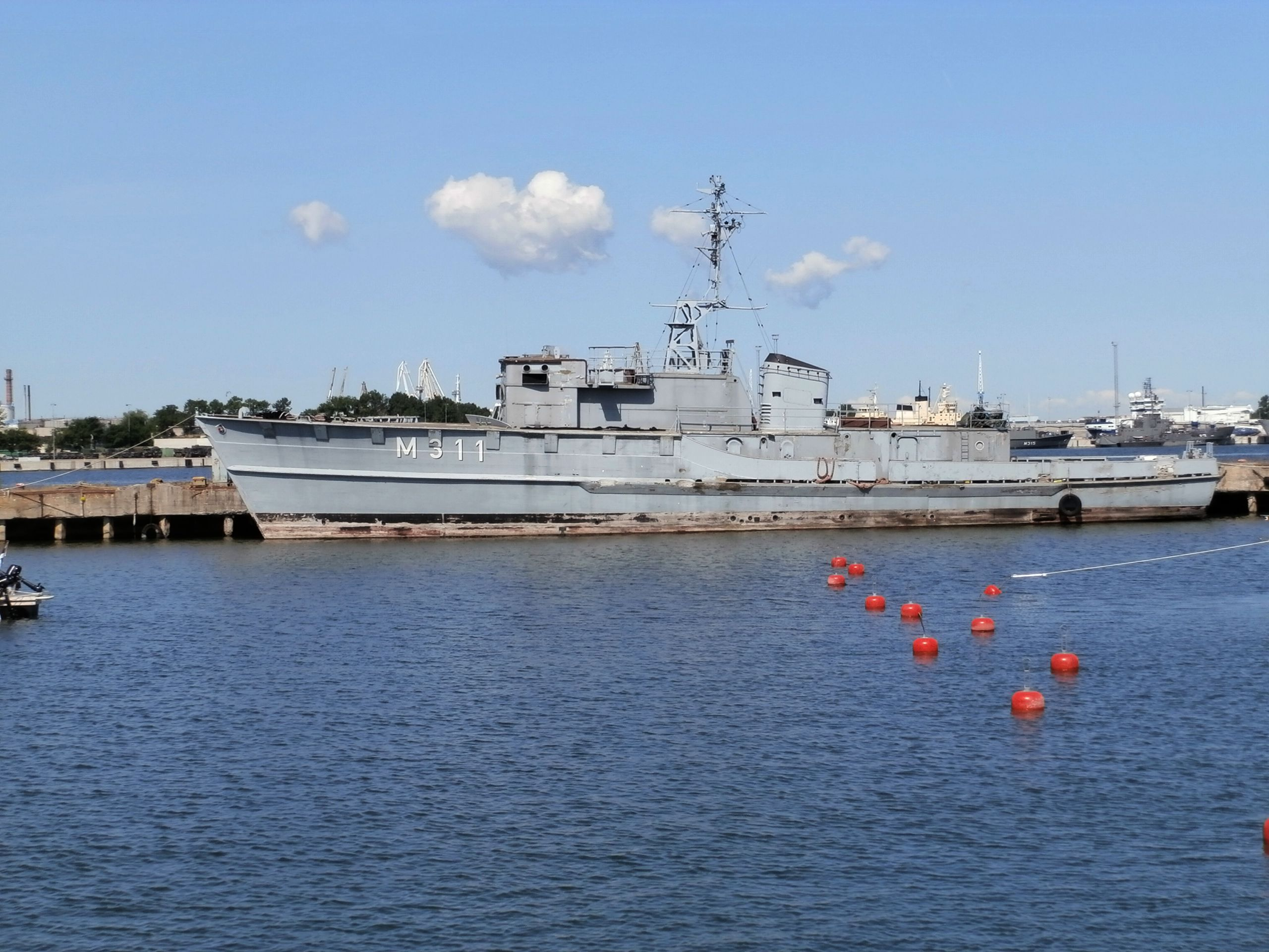 M311 Wambola port side, Tallinn 12 July 2013 (Sisu and Tarmo in Hundipea sadam, Botnica in Paljassaare sadam, M315 Ugandi, A433 Wambola, P422 Ristna in Miinisadam in the background)